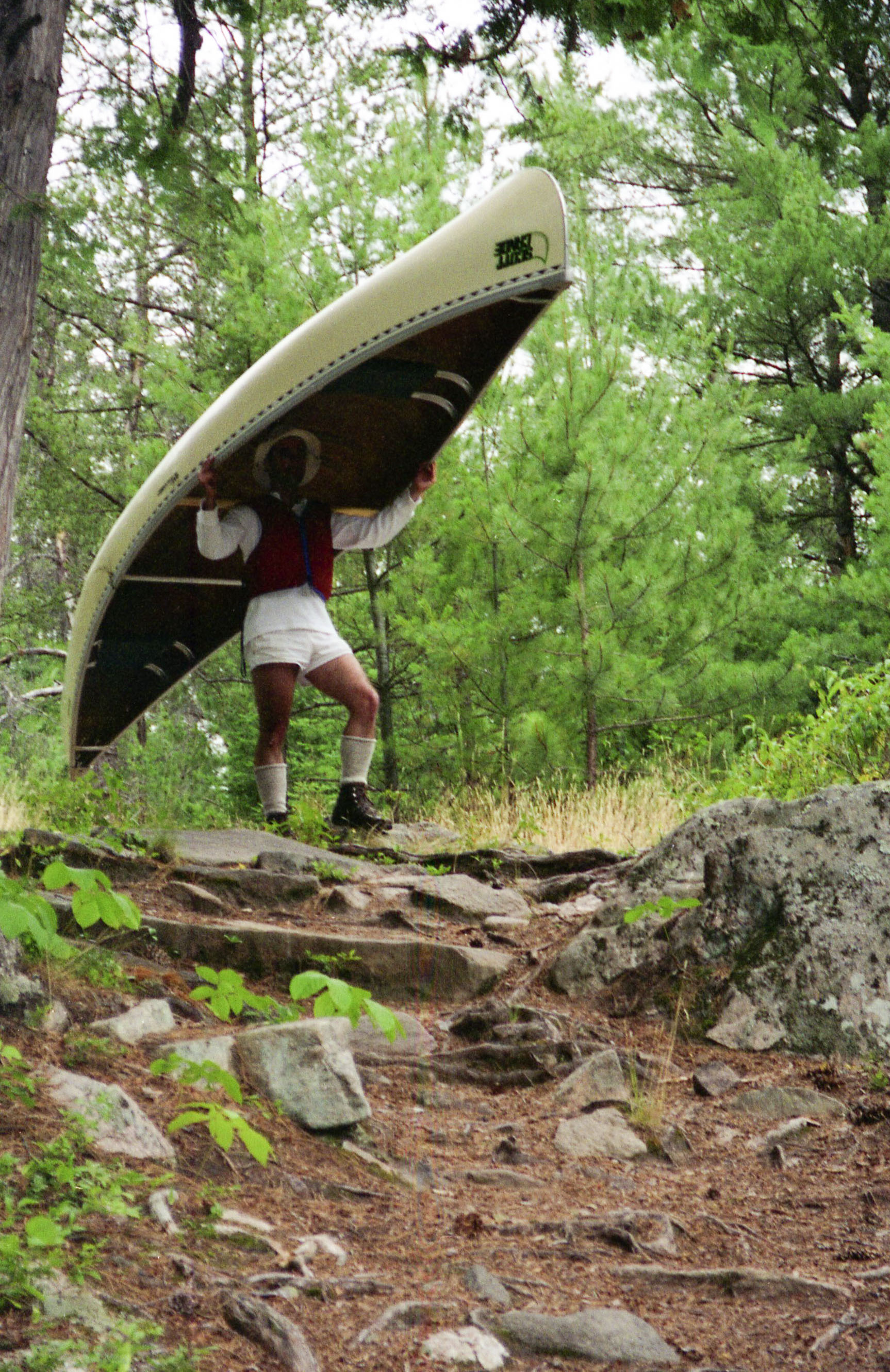 Portaging a prospector tandem canoe in Algonquin Park. Lifejacket used as shoulder pads.